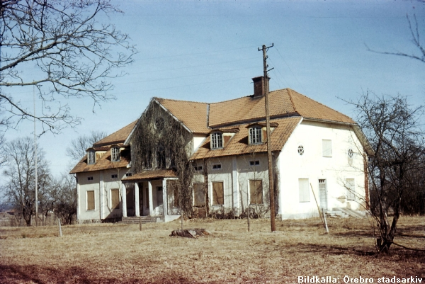 Mellringe manor, Örebro, Sweden, in the 1950ies.